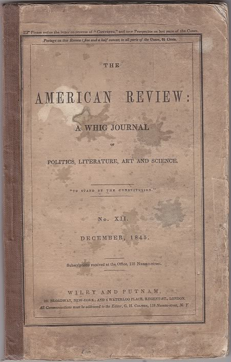 The American Review, December, 1845, No. XII, "The Facts of M. Valdemar's Case", Edgar Allan Poe.